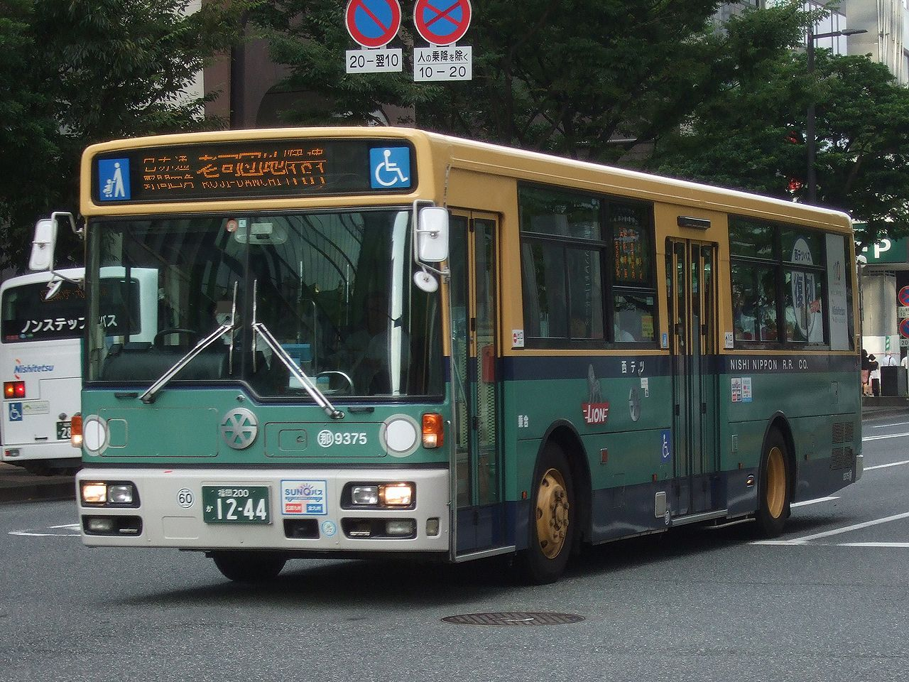 Nishitetsu 110th Anniversary wrapping bus Company:Nishi Nippon Railroad Use:transit bus Car license:FOF200 KA 1244 Code:9375 Chassis manufacturer:Nissan Diesel Type:Space_Runner Coachbuilder:Nishinippon Shatai Kogyo Location:in Chuo Ward, Fukuoka City, Fukuoka, Japan.